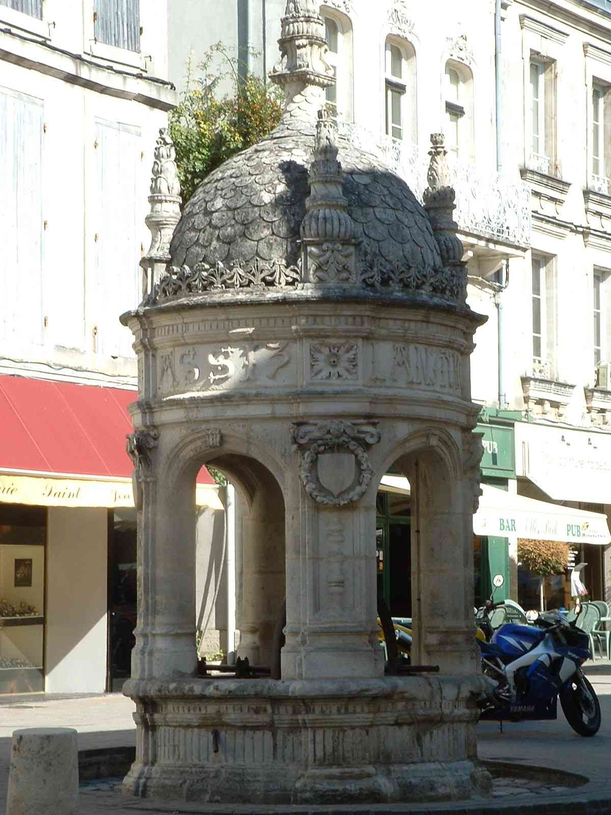 "La Fontaine du Pilori" of "Saint Jean d'Angely", 17400, France